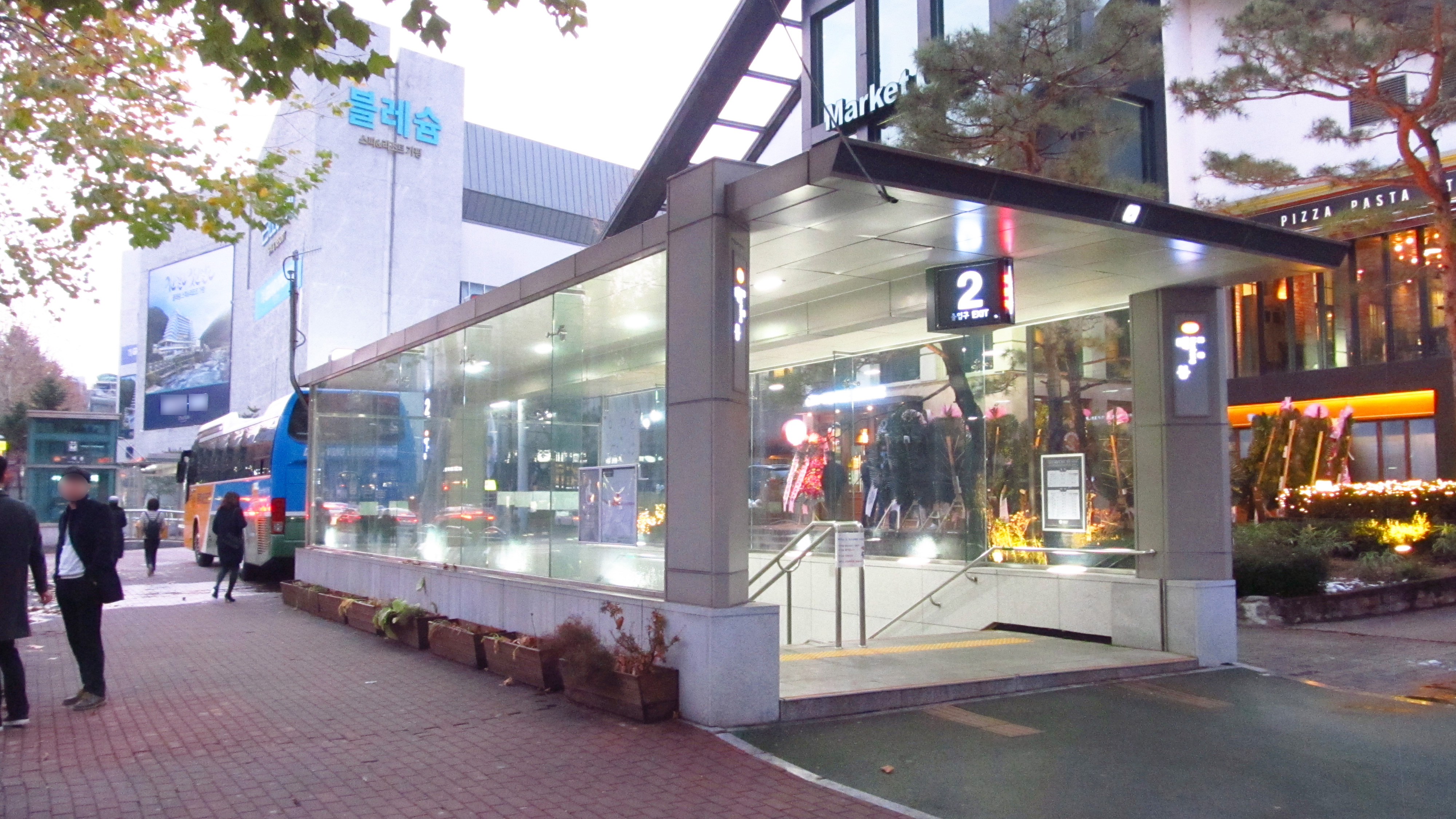 The no.2 entrance to Maebong Station on Seoul Subway Line 3 in Gangnam-gu, Seoul, Republic of Korea(South Korea)